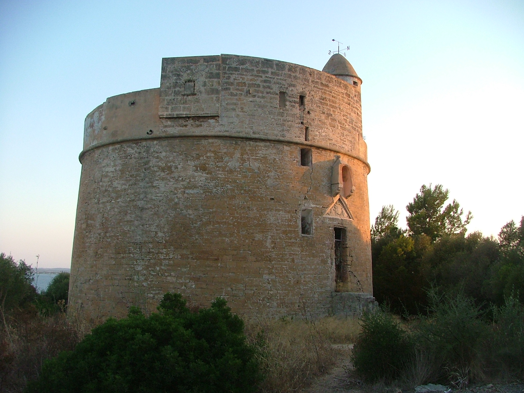 Guard tower against pirates in Alcanada, Alcudia, Mallorca, Spain